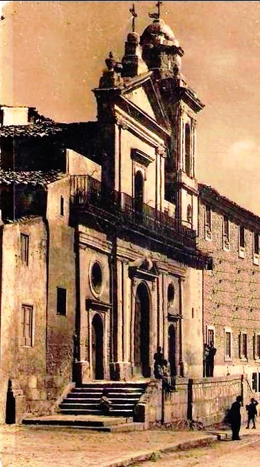 Chiesa di Santo Stefano (città di San Cataldo, provincia Caltanissetta).jpg